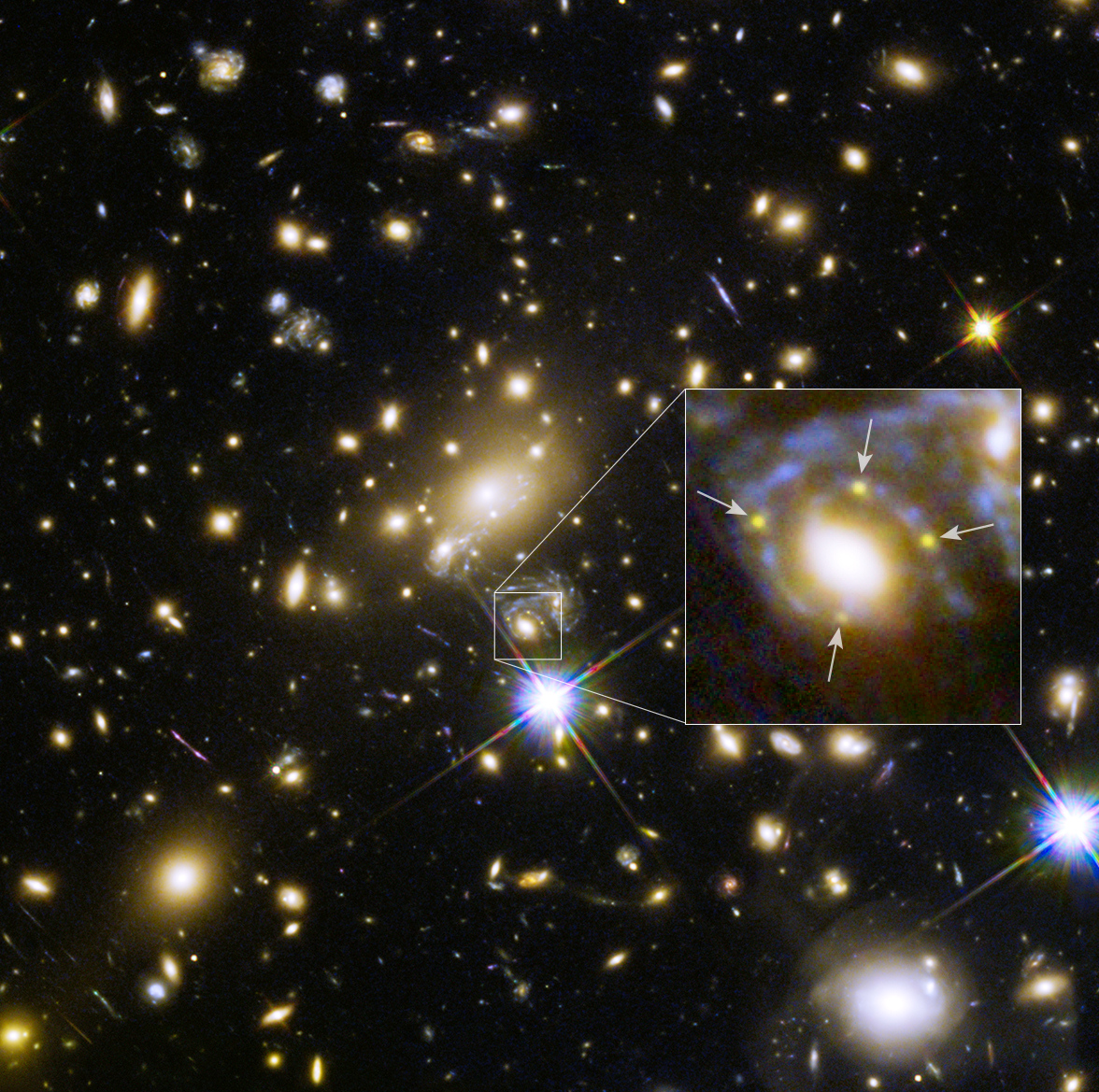 This image shows the huge galaxy cluster MACS J1149+2223, whose light took over 5 billion years to reach us. The huge mass of the cluster and one of the galaxies within it is bending the light from supernova SN Refsdal behind them and creating four separate images of it. The light has been magnified and distorted due to gravitational lensing and as a result the images are arranged around the elliptical galaxy in a formation known as an Einstein cross. A close-up of the Einstein cross is shown in the inset.